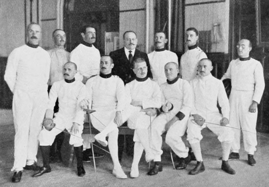 The Hungarian sabre team at the 1912 Summer Olympics